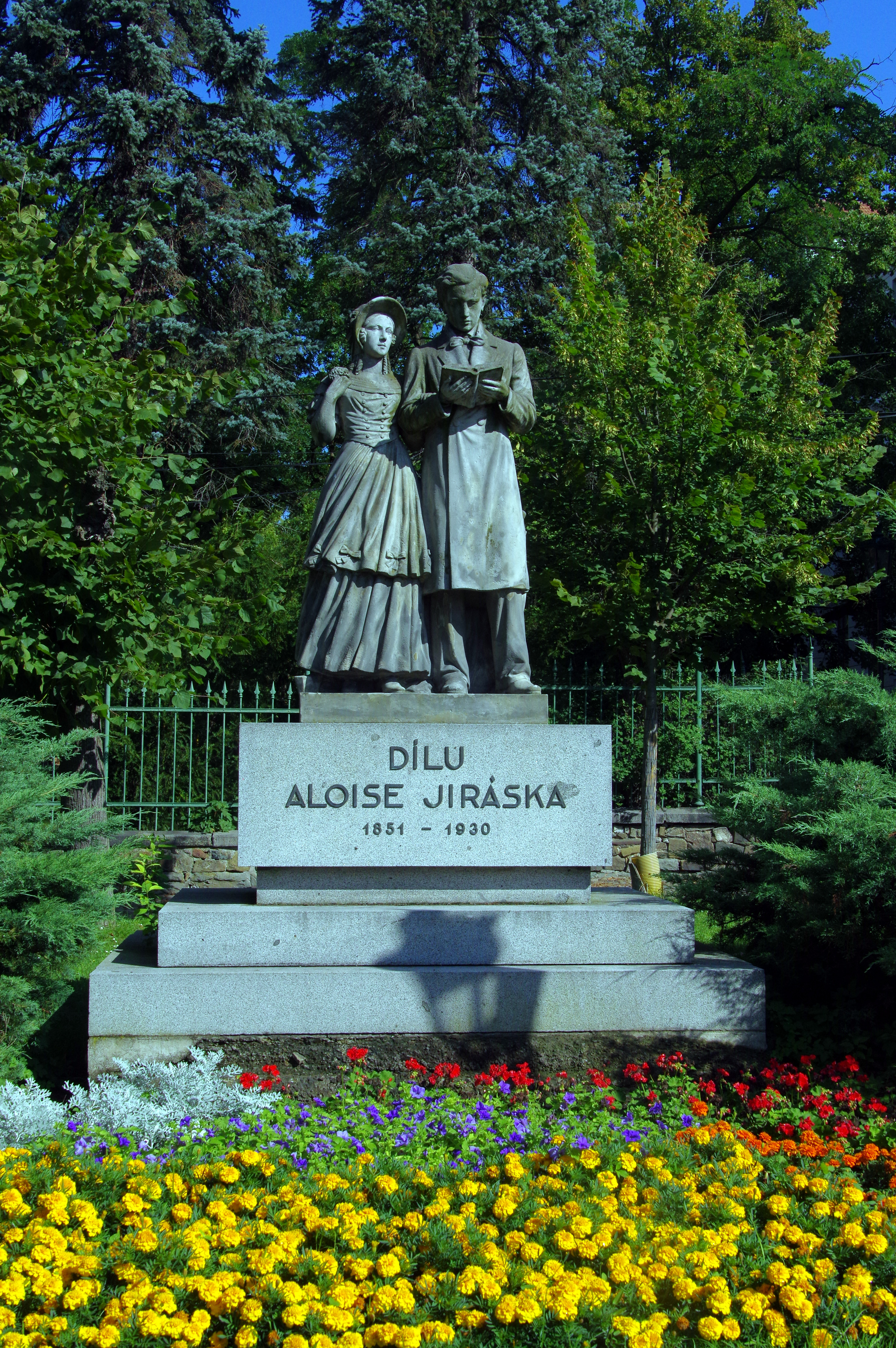 6.8.16 Pribram